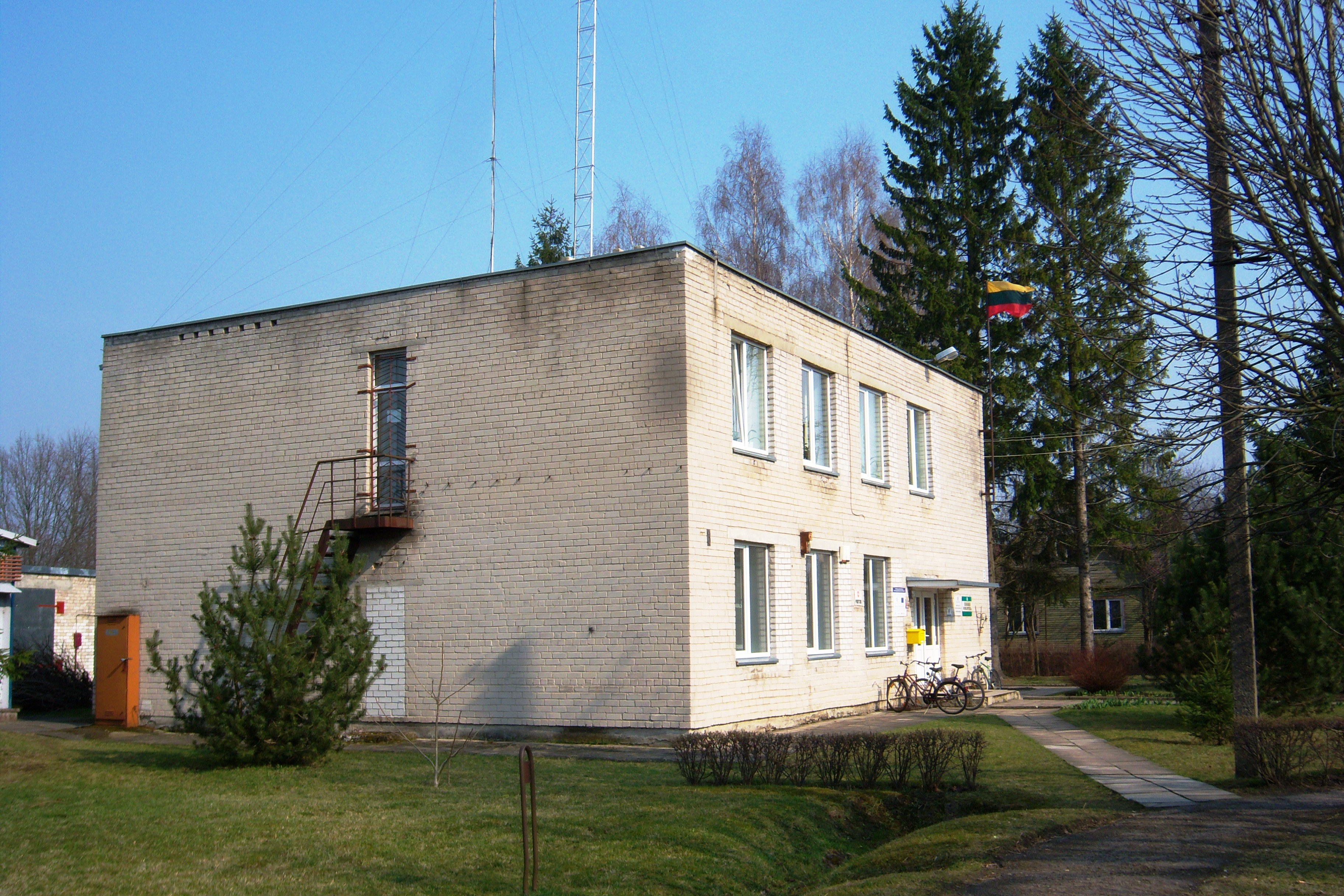 Eldership, Čekiškė, Kaunas district, Lithuania